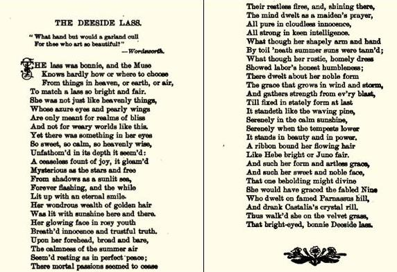 James Mackintosh Kennedy poem "Deeside Lass" from Scottish and American Poems, 1899, pp. 165-166. James Mackintosh Kennedy